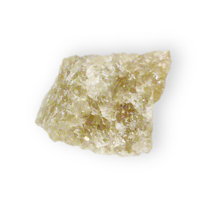 These mineral images are free to use how you wish.